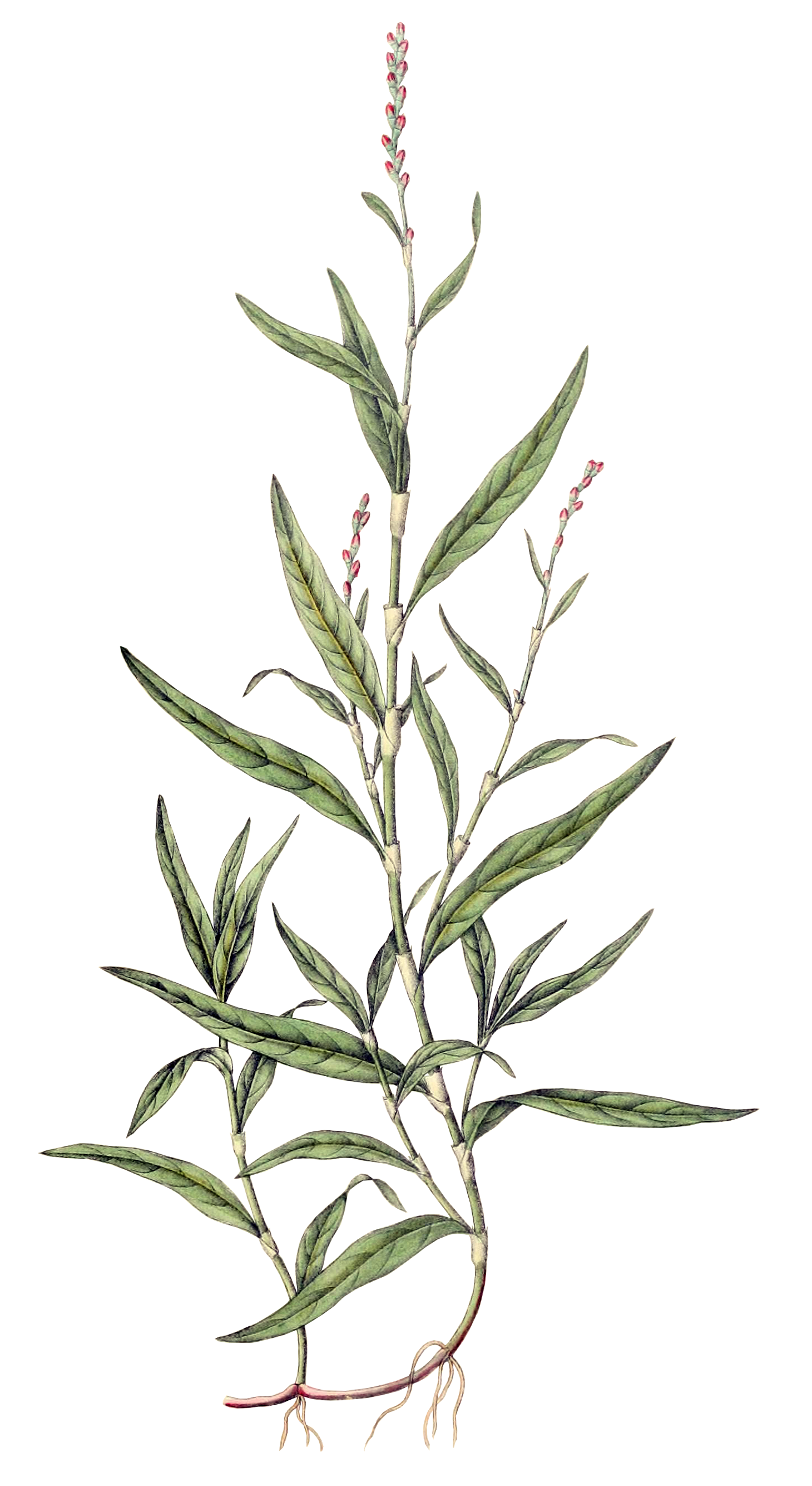 Illustration of Polygonum minus Hudson